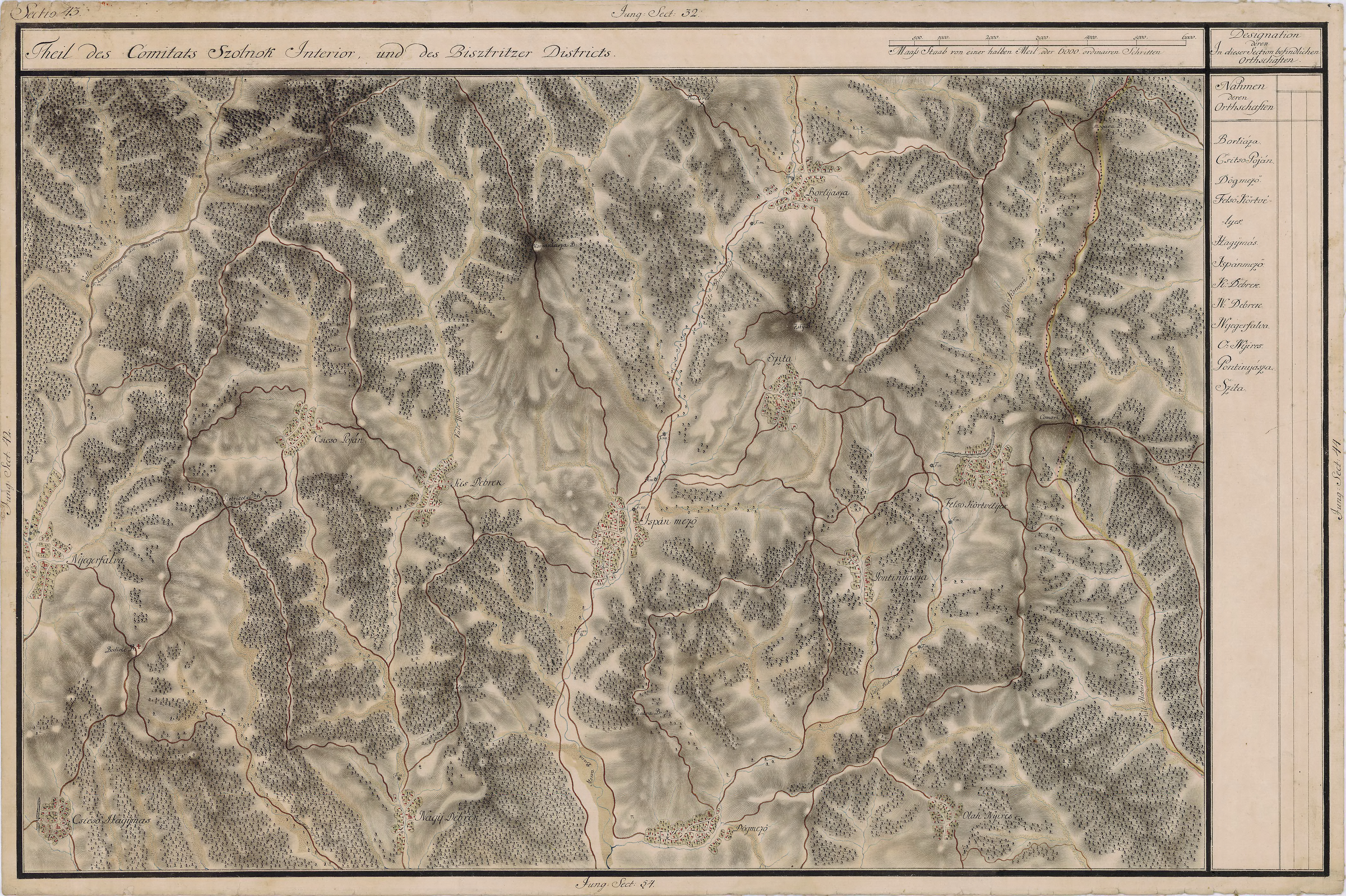 Grand Duchy of Transylvania, 1769-1773. Josephinische Landaufnahme pg.043